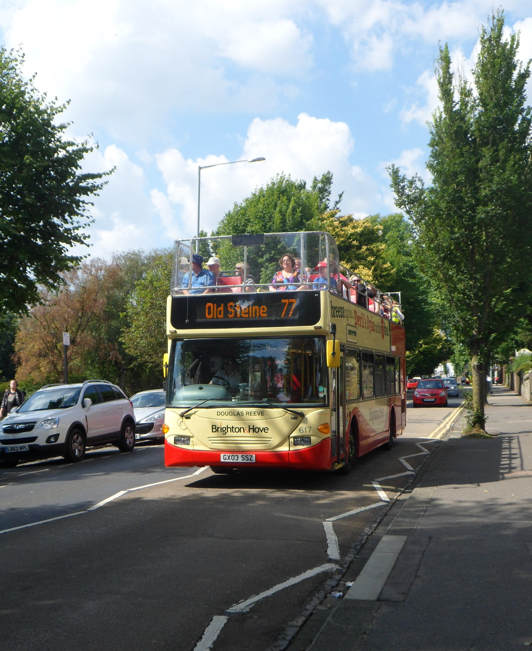 GX03 STZ (Brighton & Hove Bus Company open top bus number 618) proceeds down Dyke Road with a route #77 service from Devil's Dyke to Old Steine.